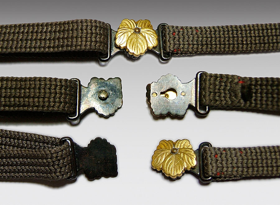 An Example Of A Prototypic Obidome : A Snapped Type, In Other Words, Pacchin Type, Of Obidome